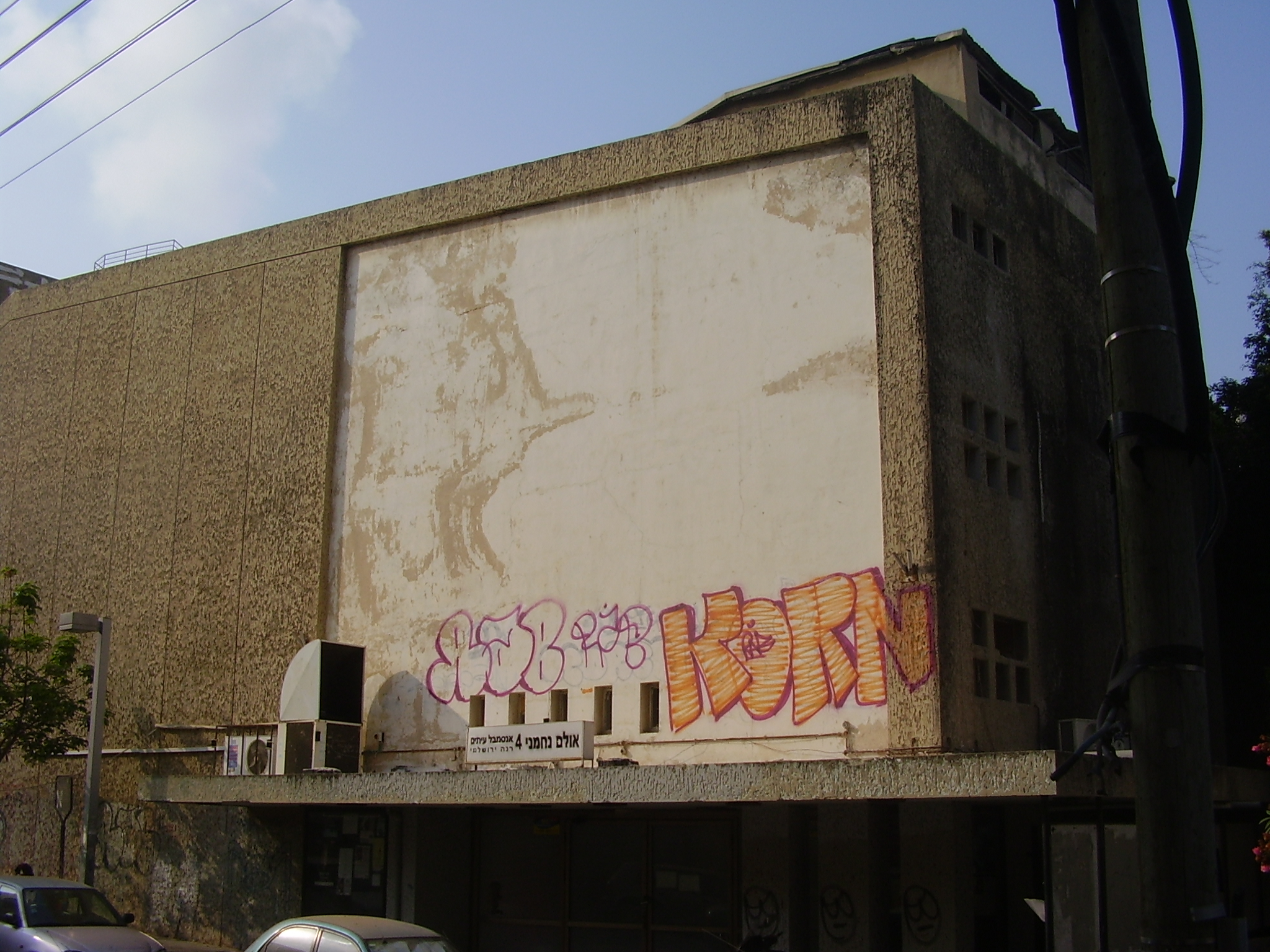 nachmani hall for performing arts in tel aviv אולם נחמני ברח' נחמני 4 בתל אביב